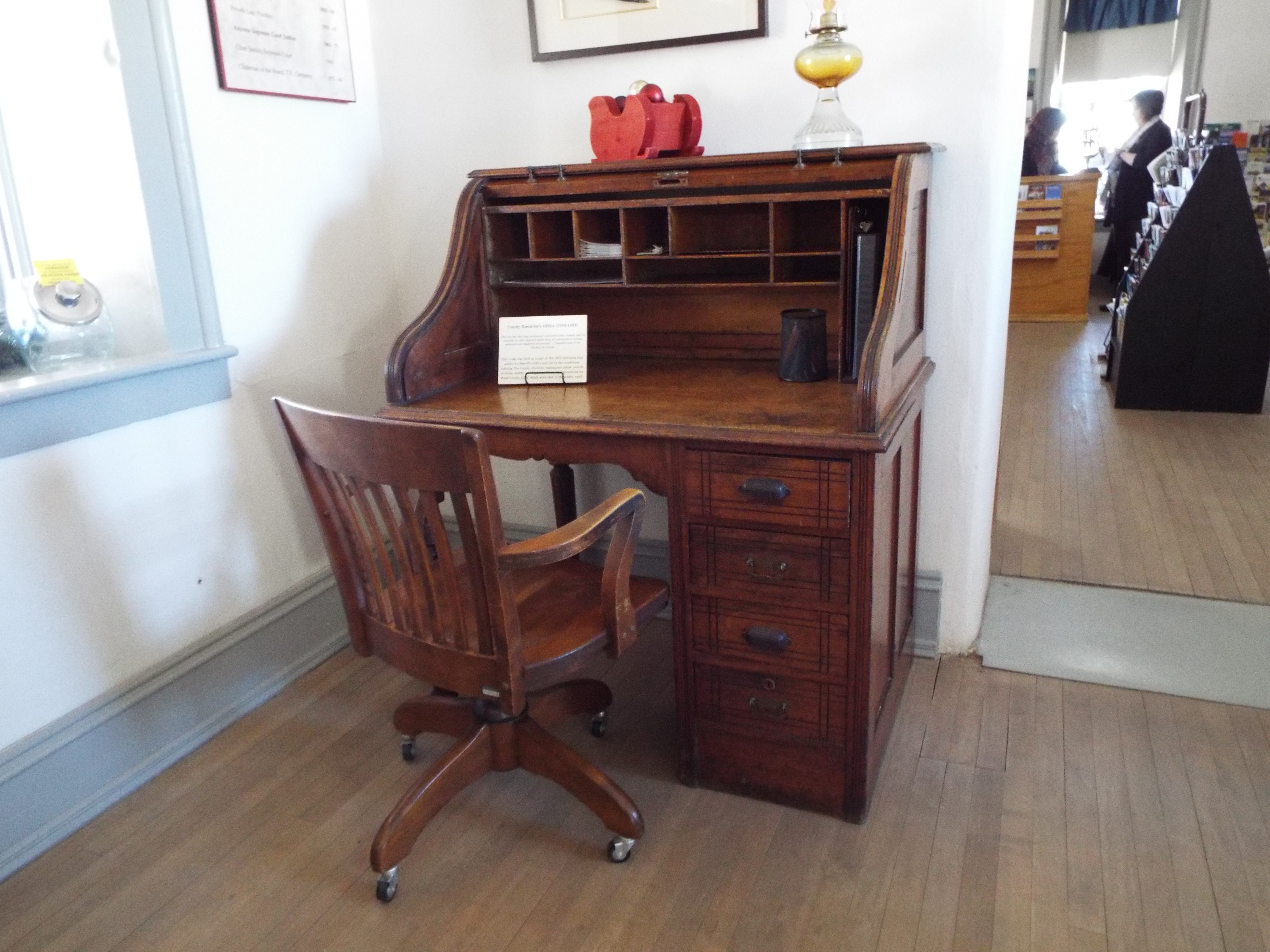 County Recorder’s Office built in 1882 in the First Pinal County Courthouse.